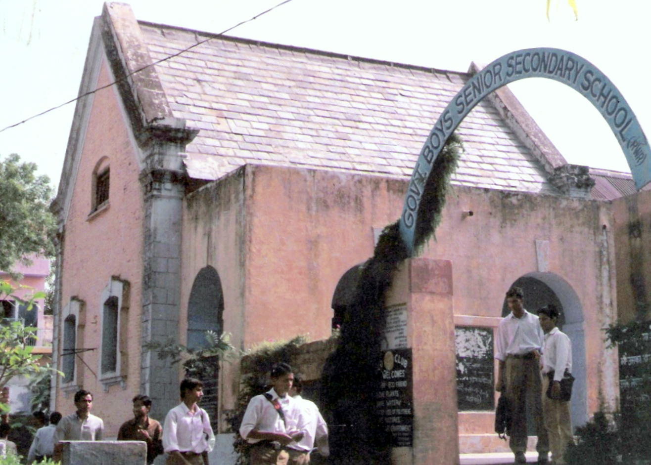 The school was started by Britishers in 1890 and is among the oldest schools in Haryana